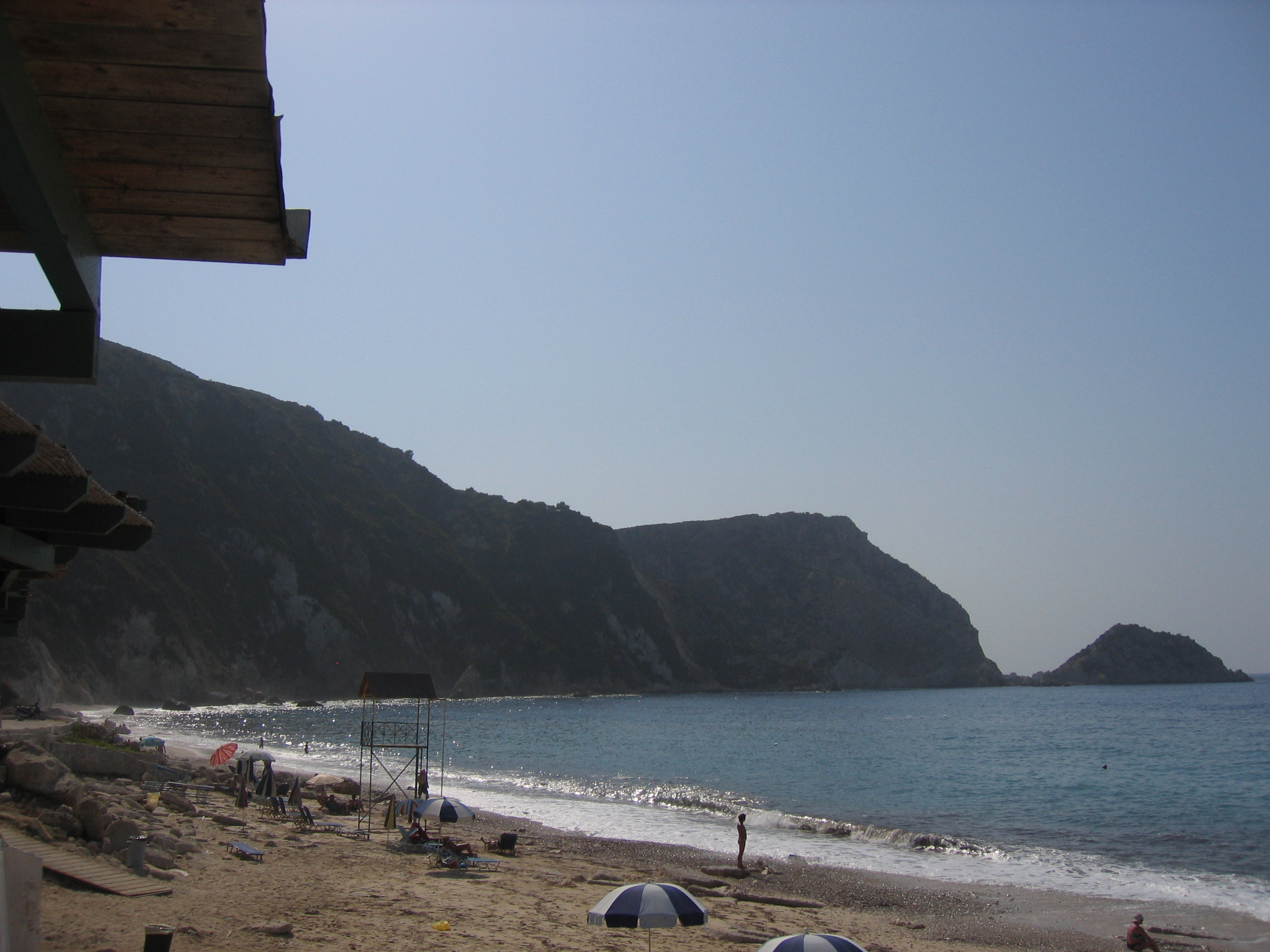 Petani beach, paliki, Kefalonia. View looking to the south